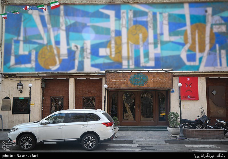 Sangelaj